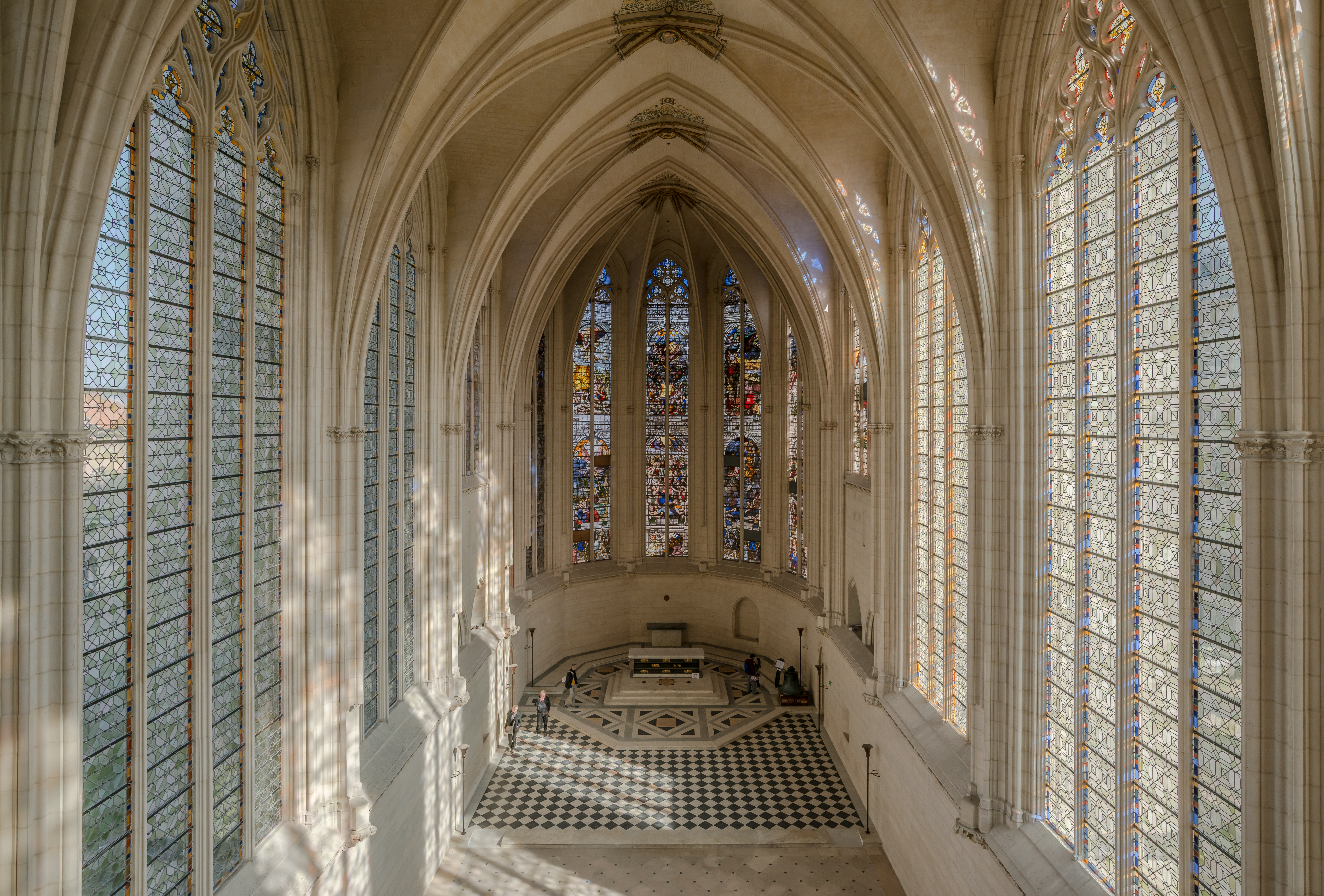 The interior of the Sainte-Chapelle de Vincennes, embedded in the buildings of the Château de Vincennes